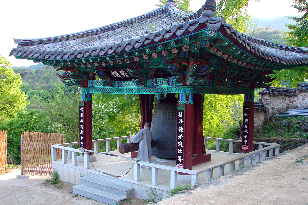 Bongjeongsa Bell Pavilion Bongjeongsa is located at the southern foot of Mt. Cheondungsan, 16 kilometers northwest of Andong city. It was built by the Buddhist Priest Uisangchosa in 672 A.D. As the oldest wooden structure in Korea, it has historic and academic significance. Many important cultural properties, such as Gukrakjeon Hall, Daeungjeon (main prayer hall), Hwaomgangdang Hall, Gogumdang Hall and Muryanghaehoedang Hall are located in the temple compound. In particular, Gukrakjeon Hall is noteworthy, because it clearly shows unique Shilla architectural design unlike most other buildings which adopted Chinese designs.